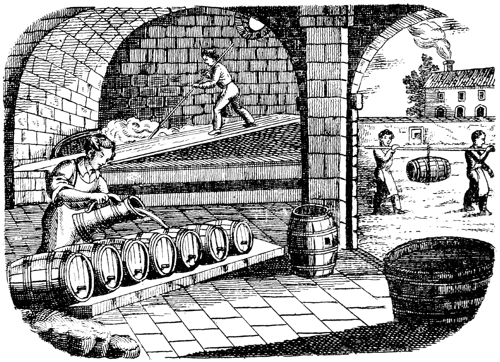 Wood engraving of Breweries of 19th Century. Reproduction of Picture in "Neuen Orbis Pictus"